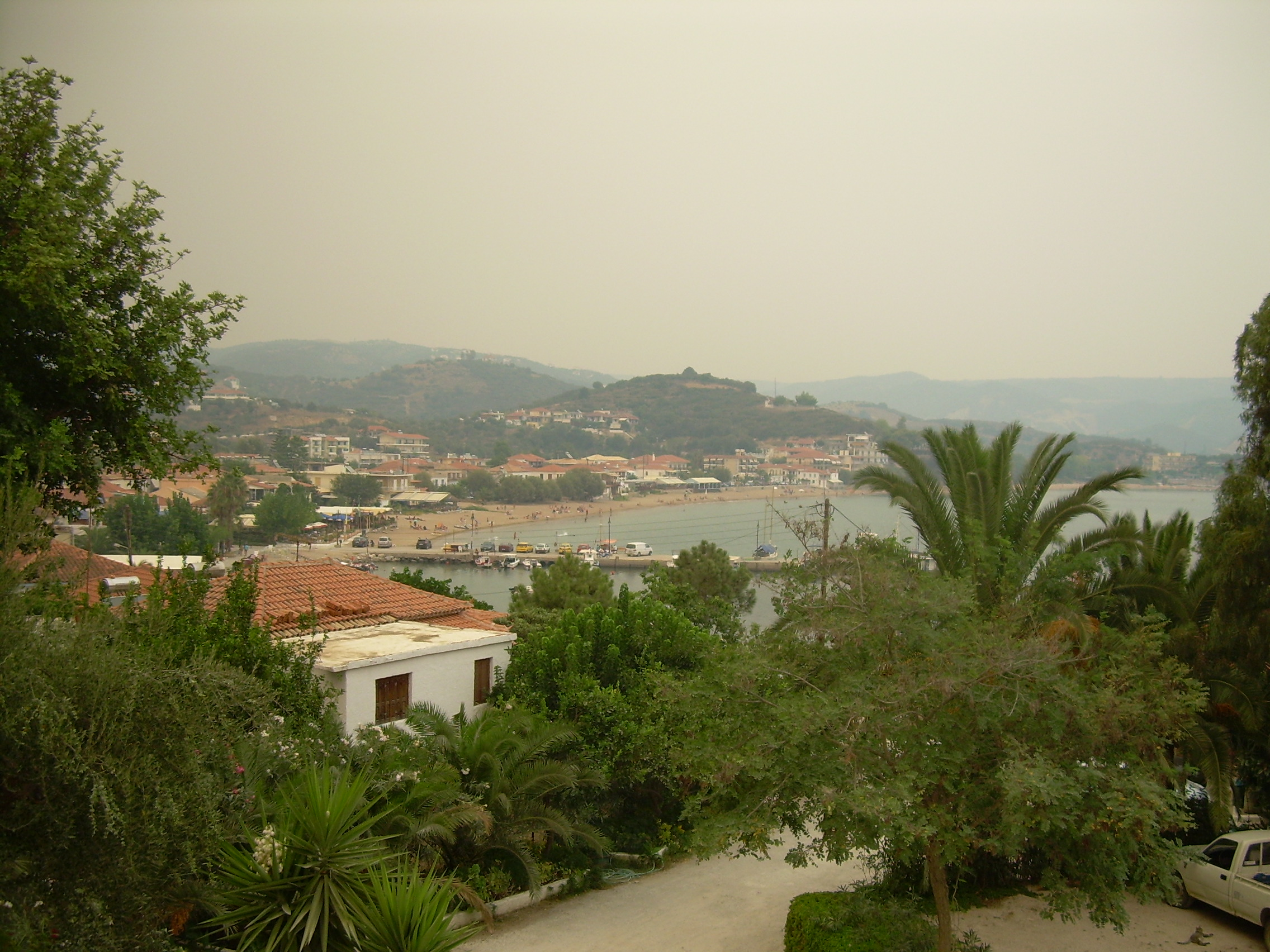 Foinikounda